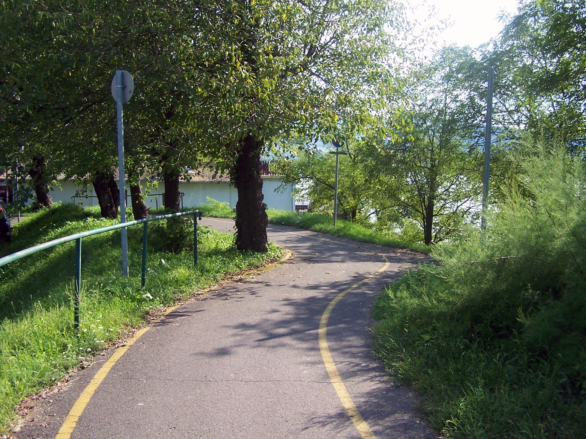 zebegényi bicikliút